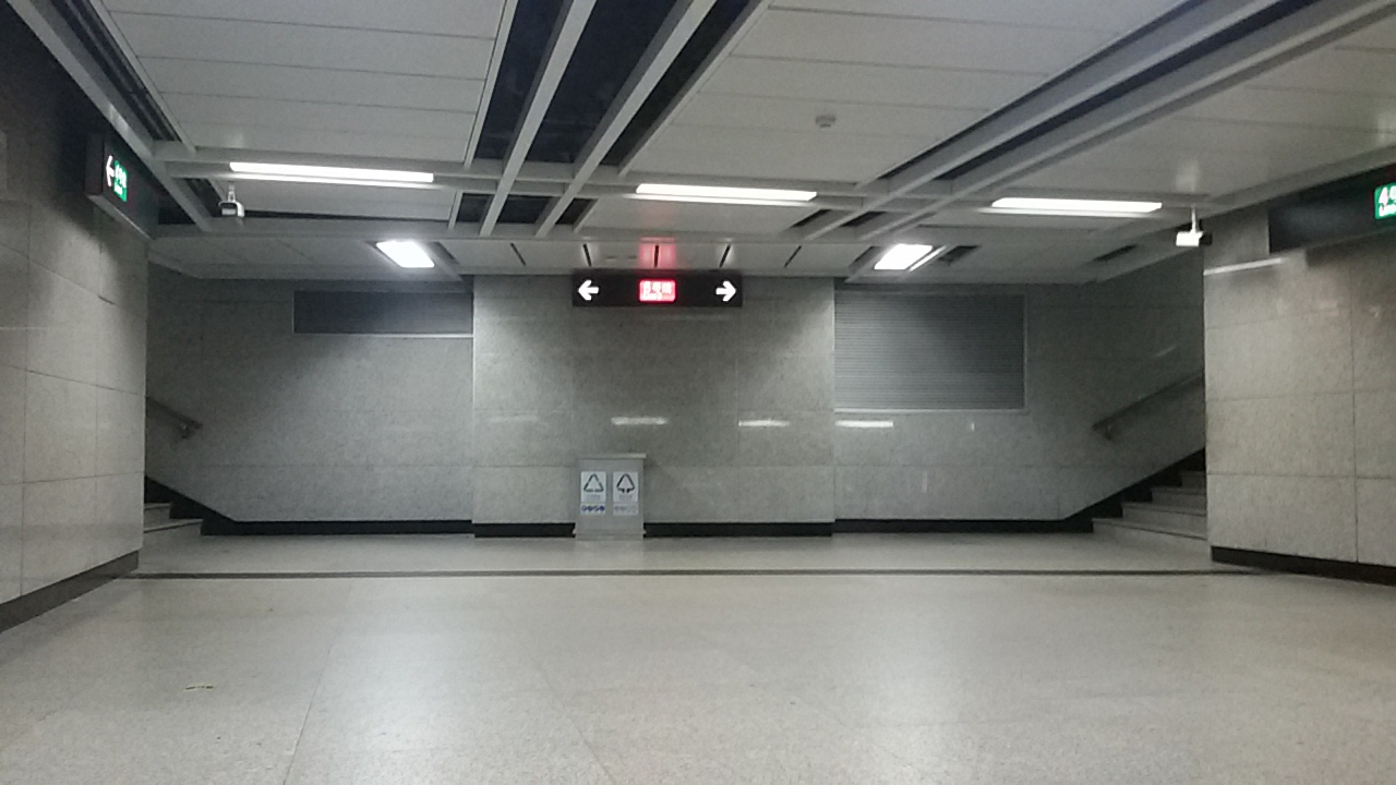 Transfer-passageway Hall in Chebeinan Station